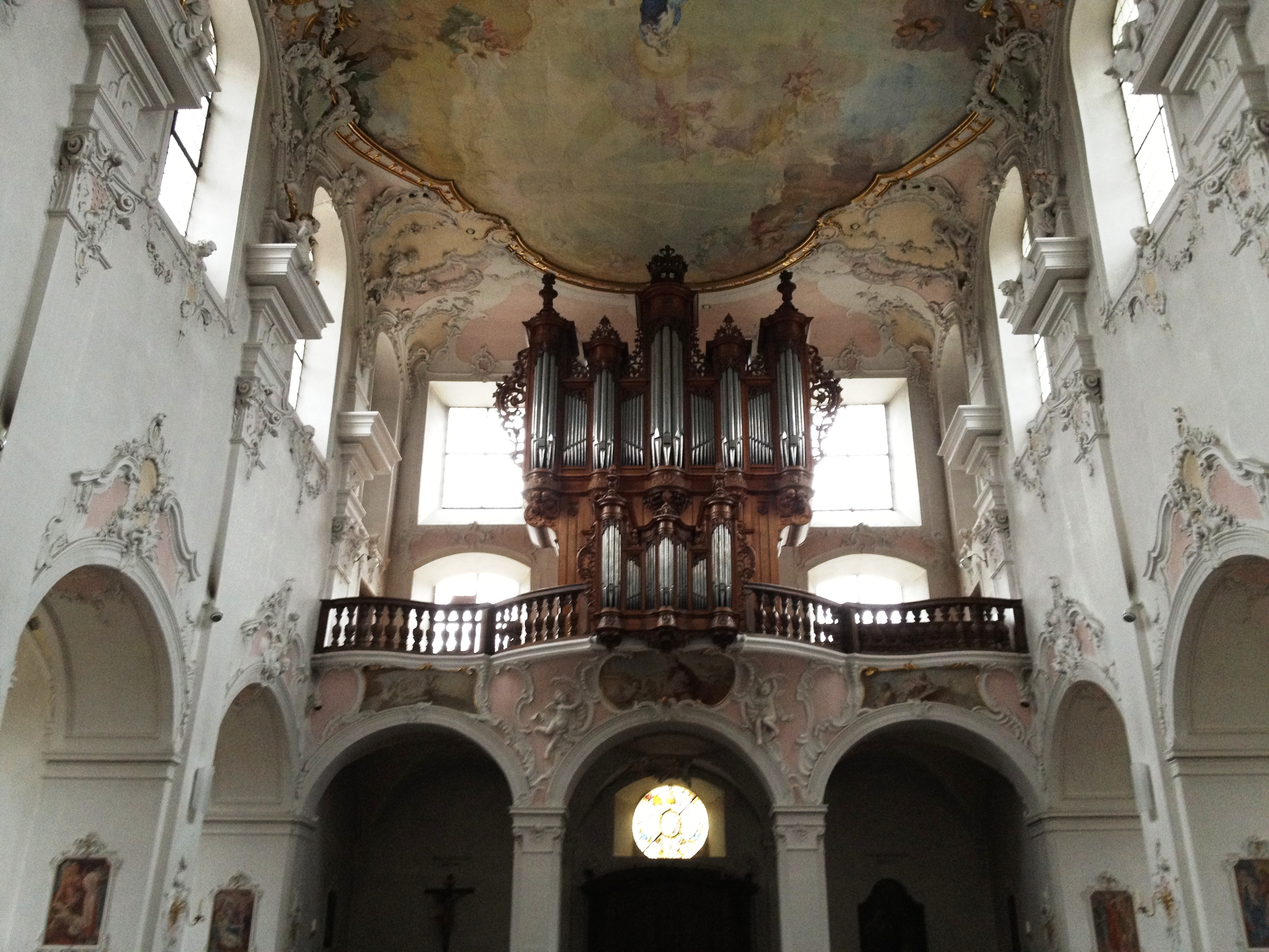 Organ by Silbermann in the Cathedral of Arlesheim.